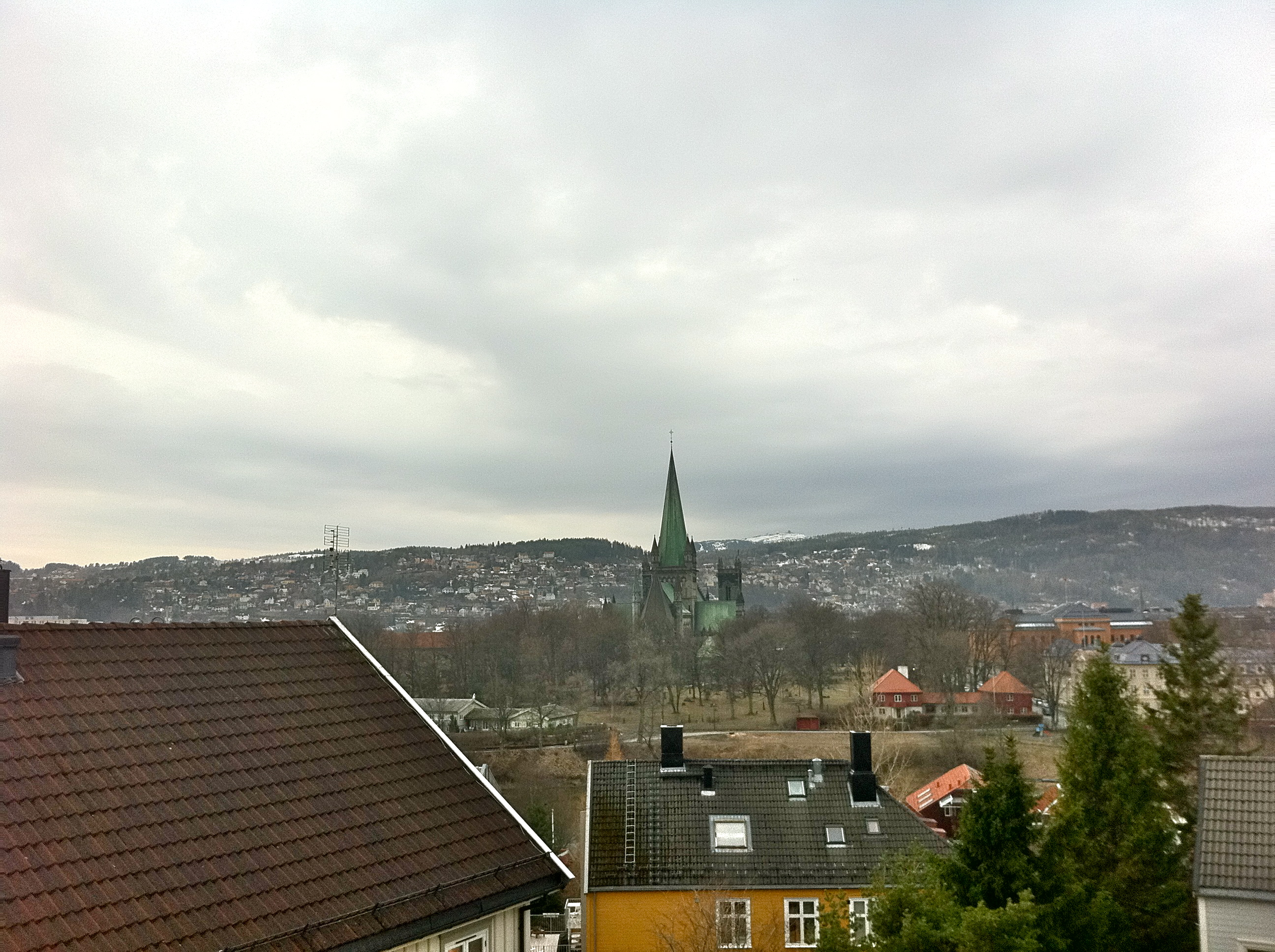 View of Byåsen ("The town hill") in Trondheim, Norway. In the center of the photo: The Nidaros Cathedral